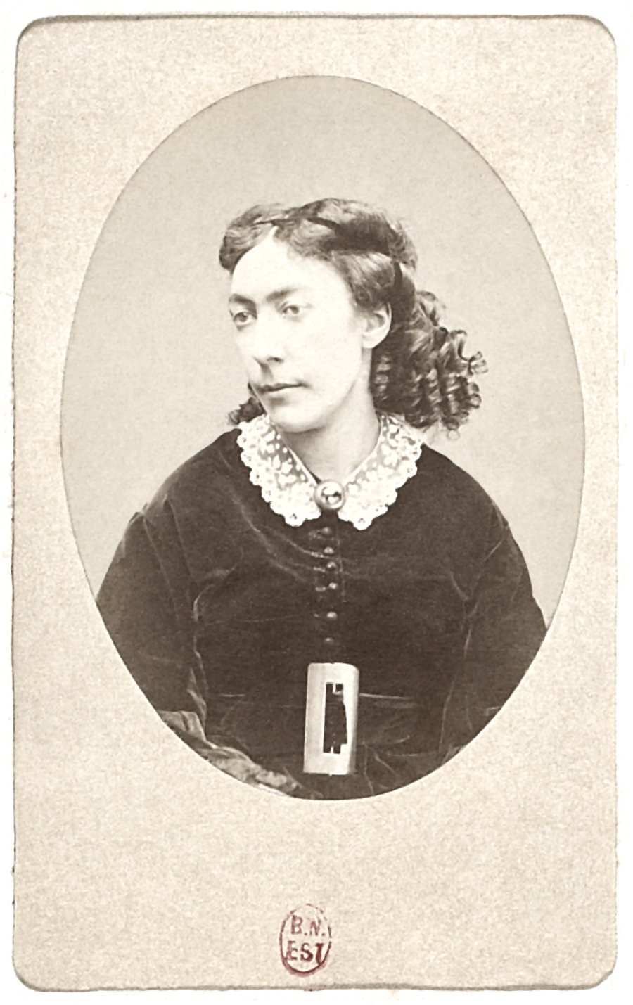 Raoul de Navery (Eugénie-Caroline Saffray) (1831-1885), french writer, novelist.